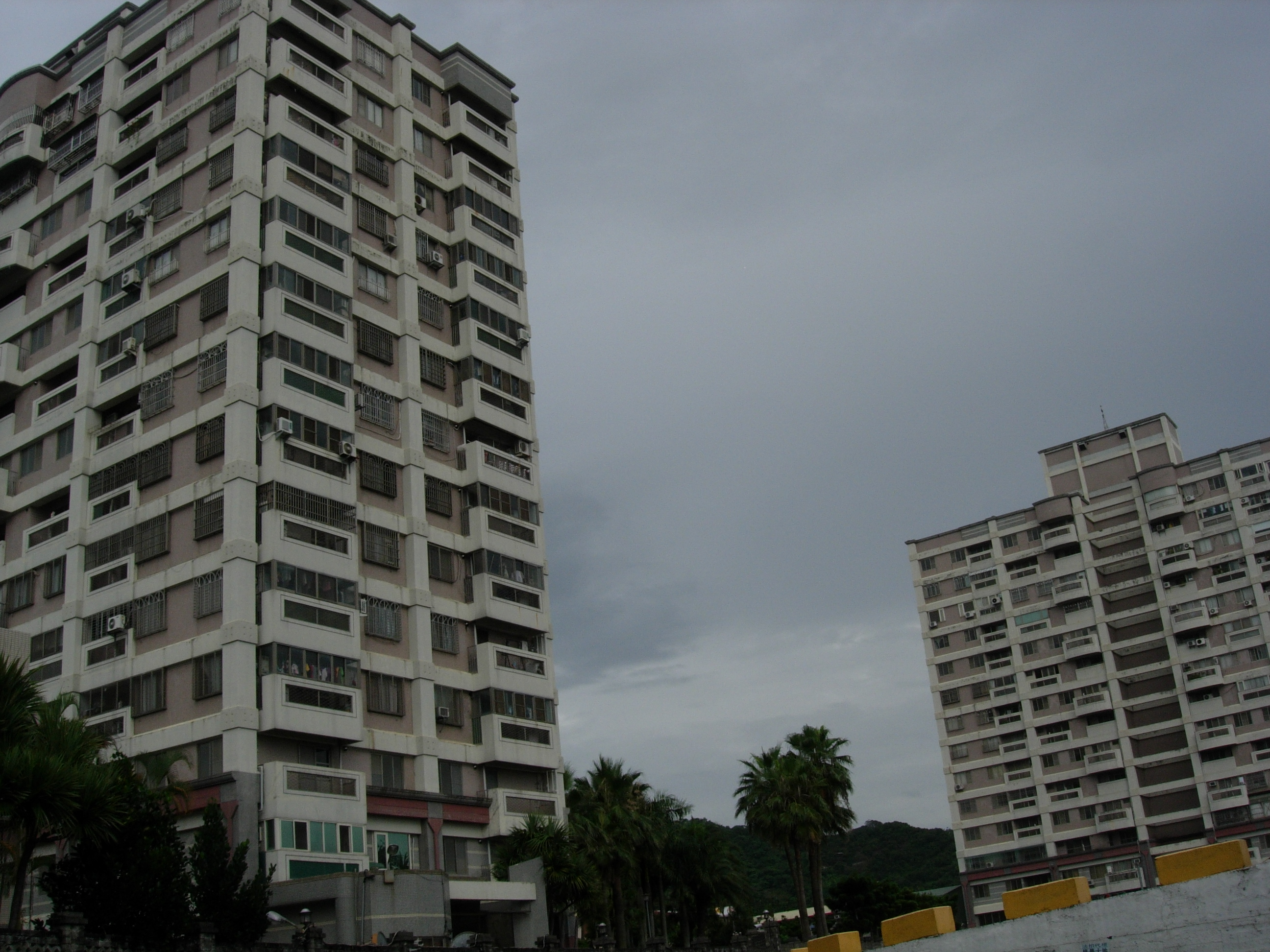 NantouCityJyungongliaoBuilding